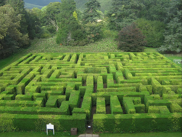 Hedge maze in rear garden, Traquair House in Scotland